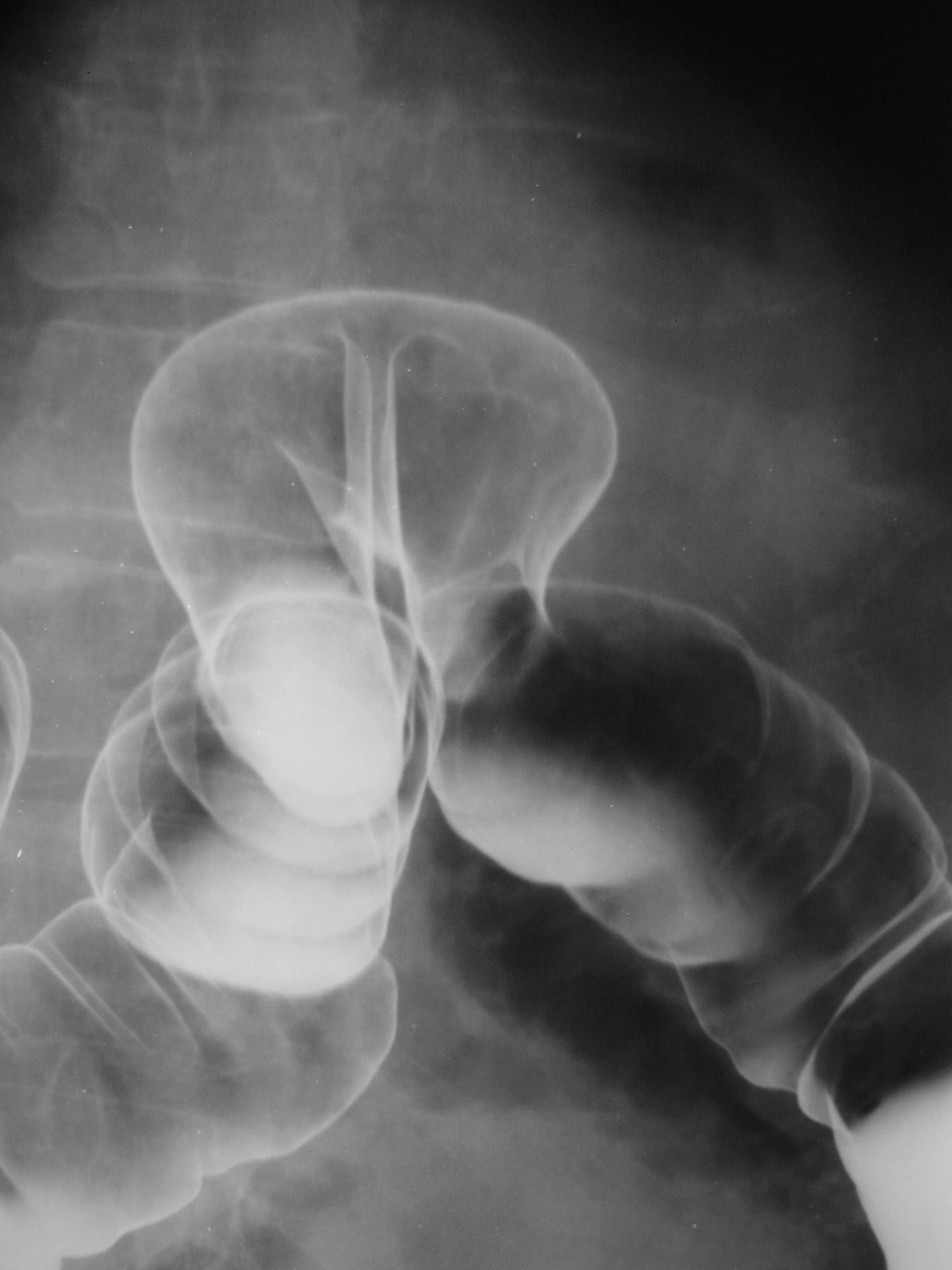 X-rays image: Double Contrast Barium Enema depicting gas filled loop of colon trapped outside the normal peritoneal confines. This marks the entrance or exit of transdiafragmatic, colonic herniation.